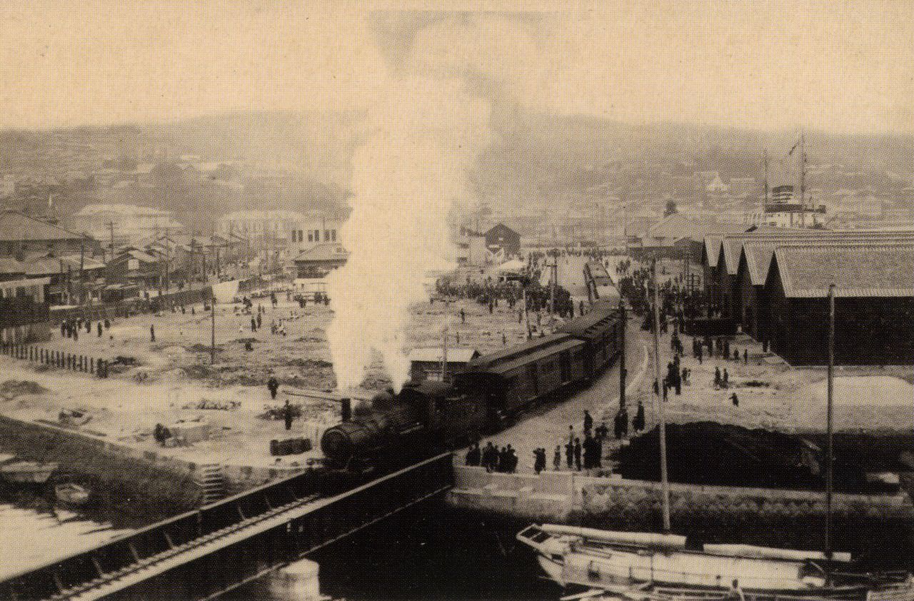 Japanese postcard showing the station in Nagasaki Port